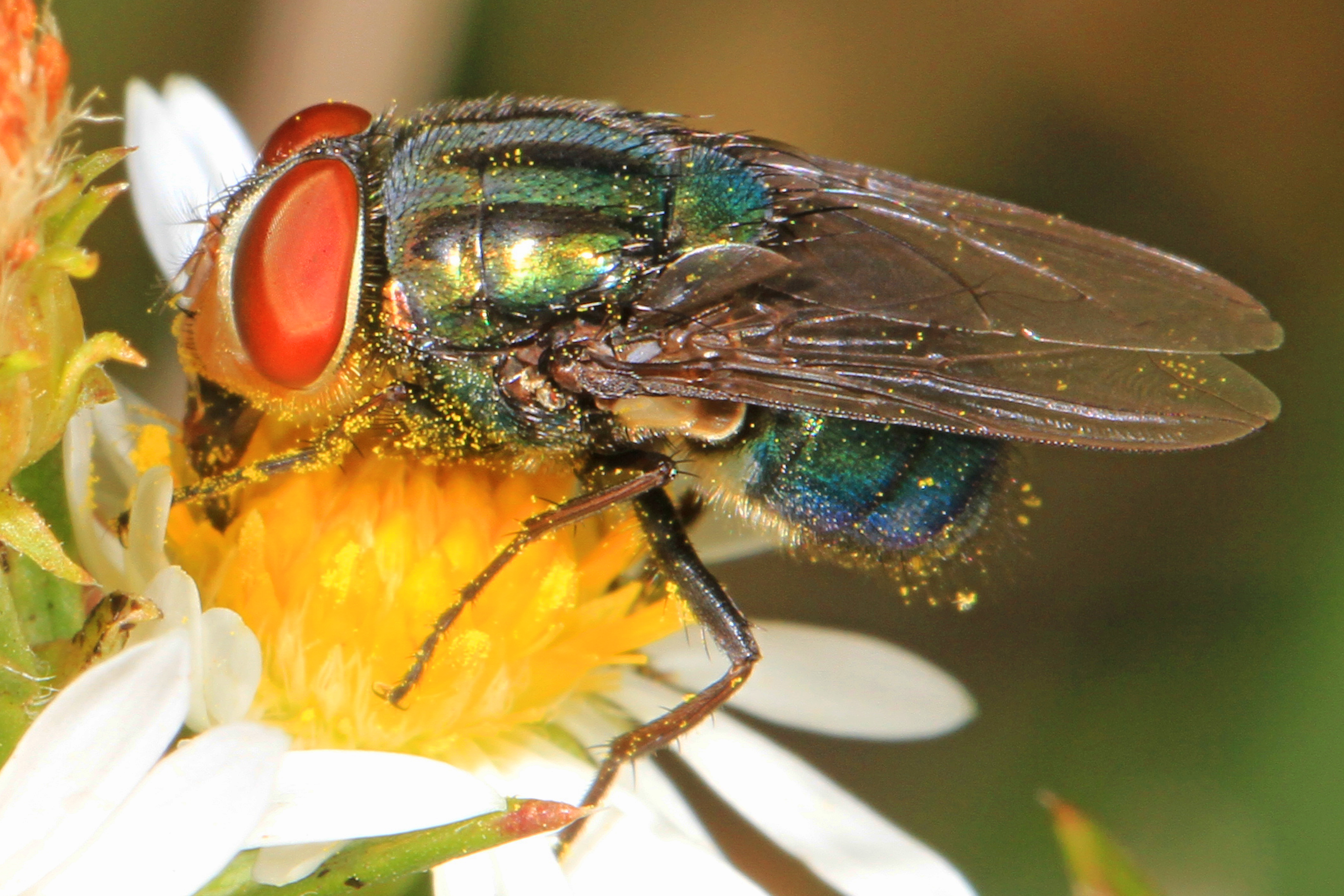 Secondary Screwworm - Cochliomyia macellaria, Julie Metz Wetlands, Woodbridge, Virginia